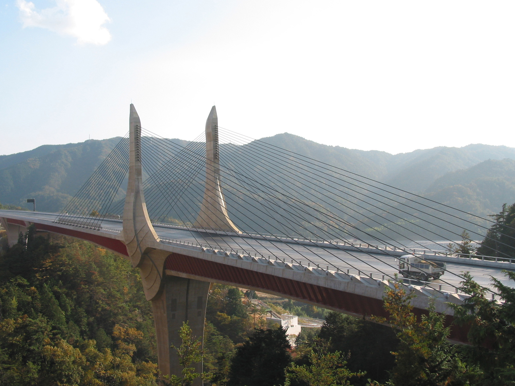 OmiOdori bridge (under constraction) of Shin-Meishin ExpresswayExtradosed bridge with corrugated steel webs. 工事中の近江大鳥橋（新名神高速道路）波形鋼板ウェブPCエクストラドーズド橋滋賀県栗東市荒張町にて撮影